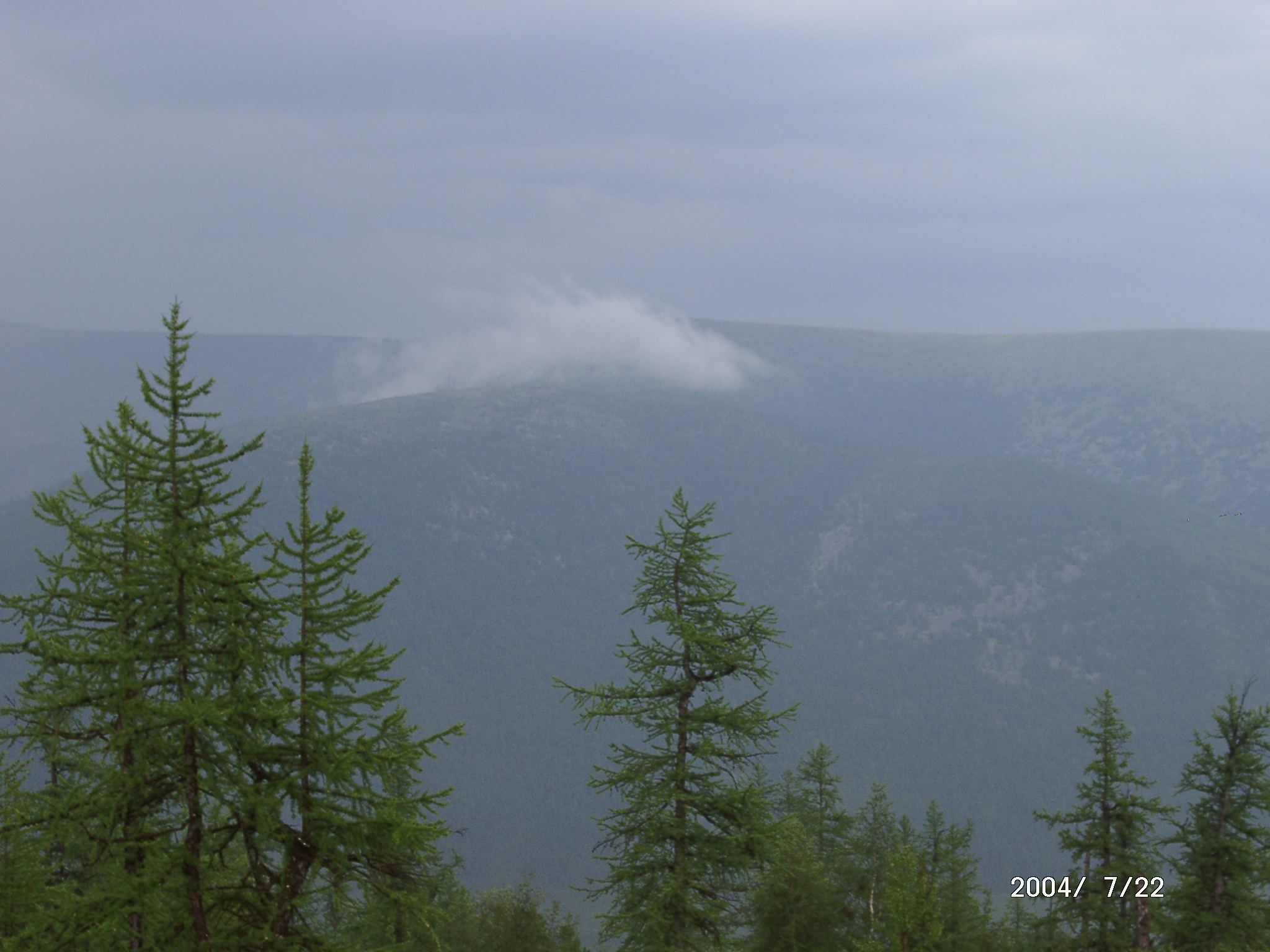 Larix sibirica — in the Taiga forests of the Ural Mountains, Russia. Berezovsky, Khanty-Mansiyskiy Autonomous Okrug — Tyumen Oblast. 64°17'47"N 60°54'10"E